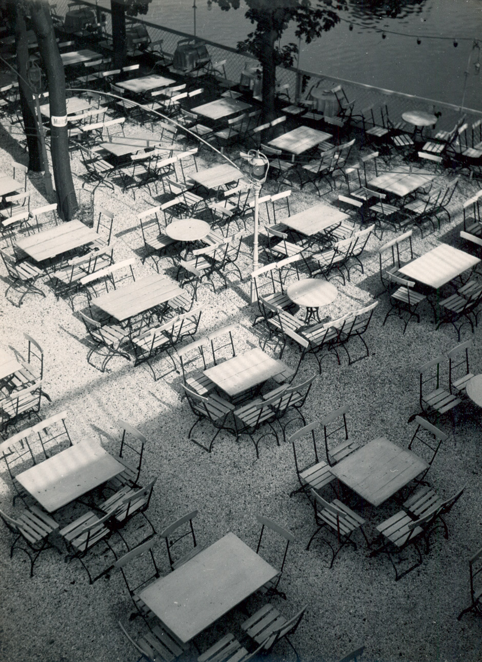 Restaurant terrace. Vintage ferrotyped gelatin silver print on chamois paper. 24,5 x 18 cm. Photographer's stamp Foto H. Koch Halle/S. and annotated in pencil on the verso.